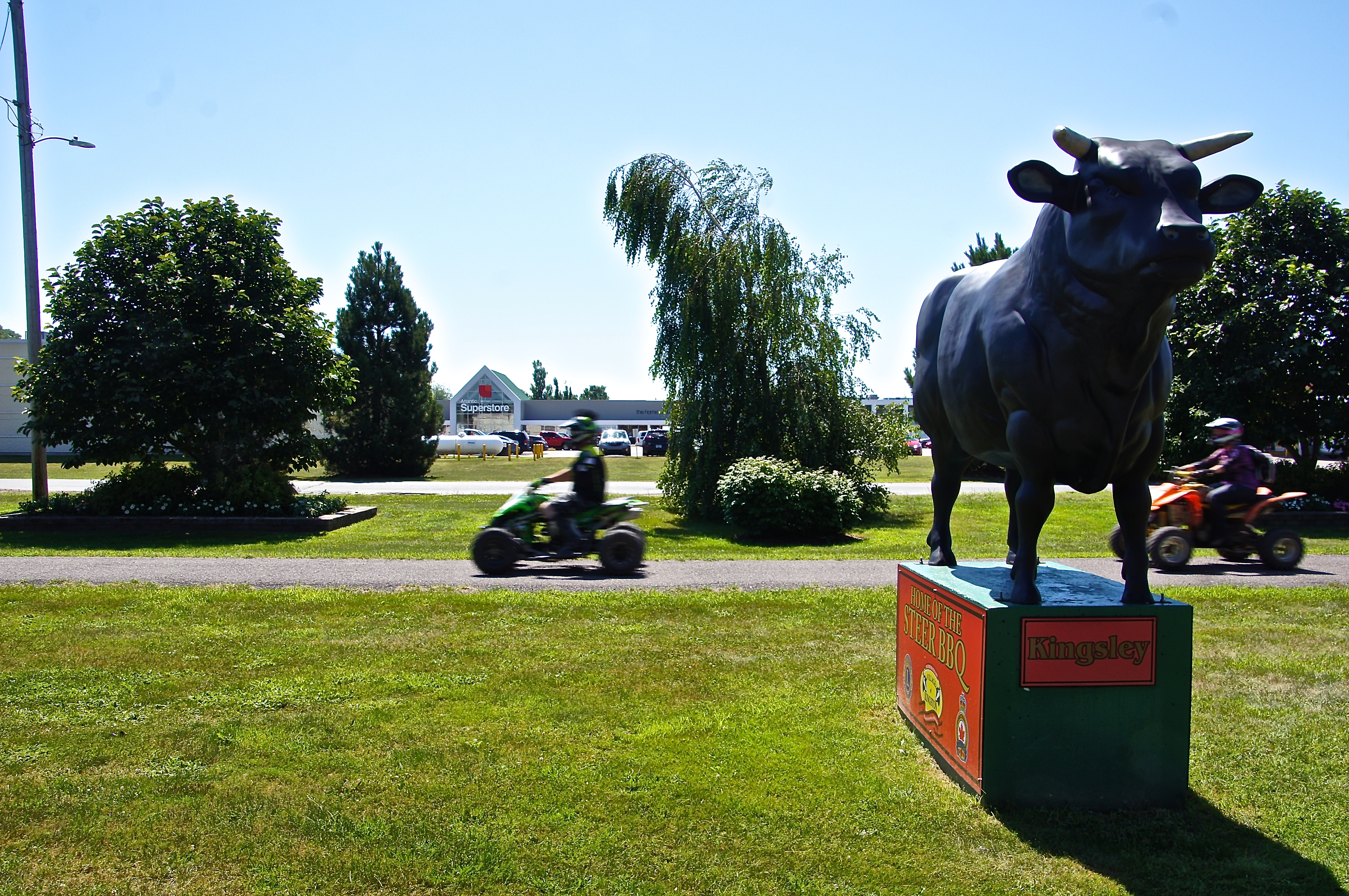 Like many small Maritime communities, Kingston, Nova Scotia seeks to hold on to traditional agricultural values while benefiting from the benefits of globalism made possible with better transportation and communications.